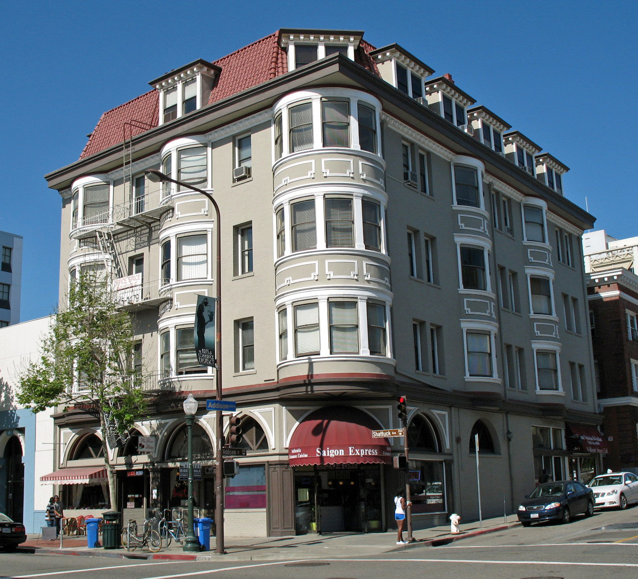 National Register of Historic Places listings in Alameda County, California. Studio Building, 2045 Shattuck Ave, Berkeley, CA. Photographed 2009-05-16 from the southwest corner of Shattuck Ave. and Addison St.